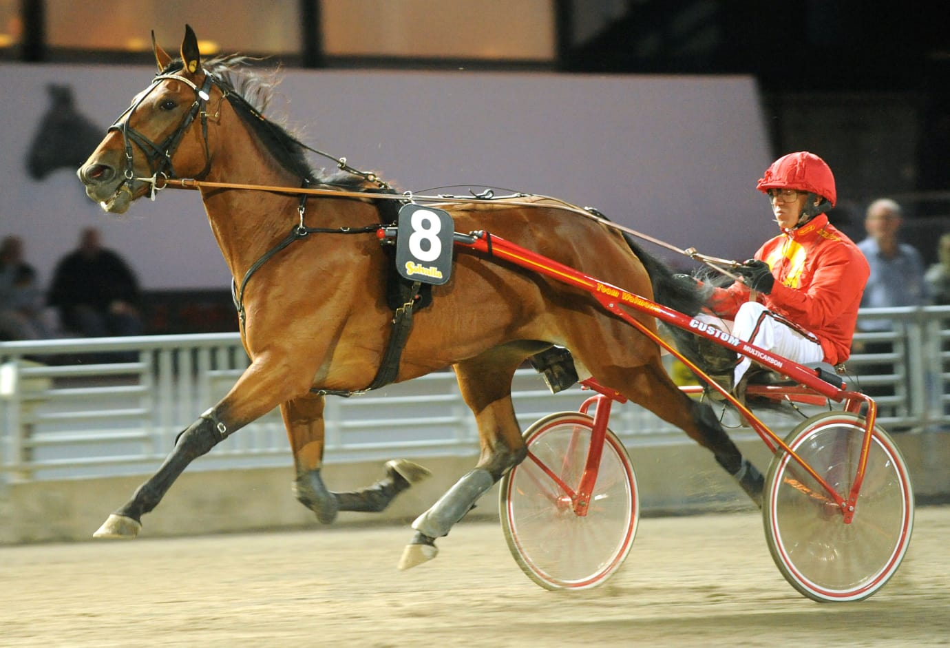 Tamla Celeber and driver Örjan Kihlström.